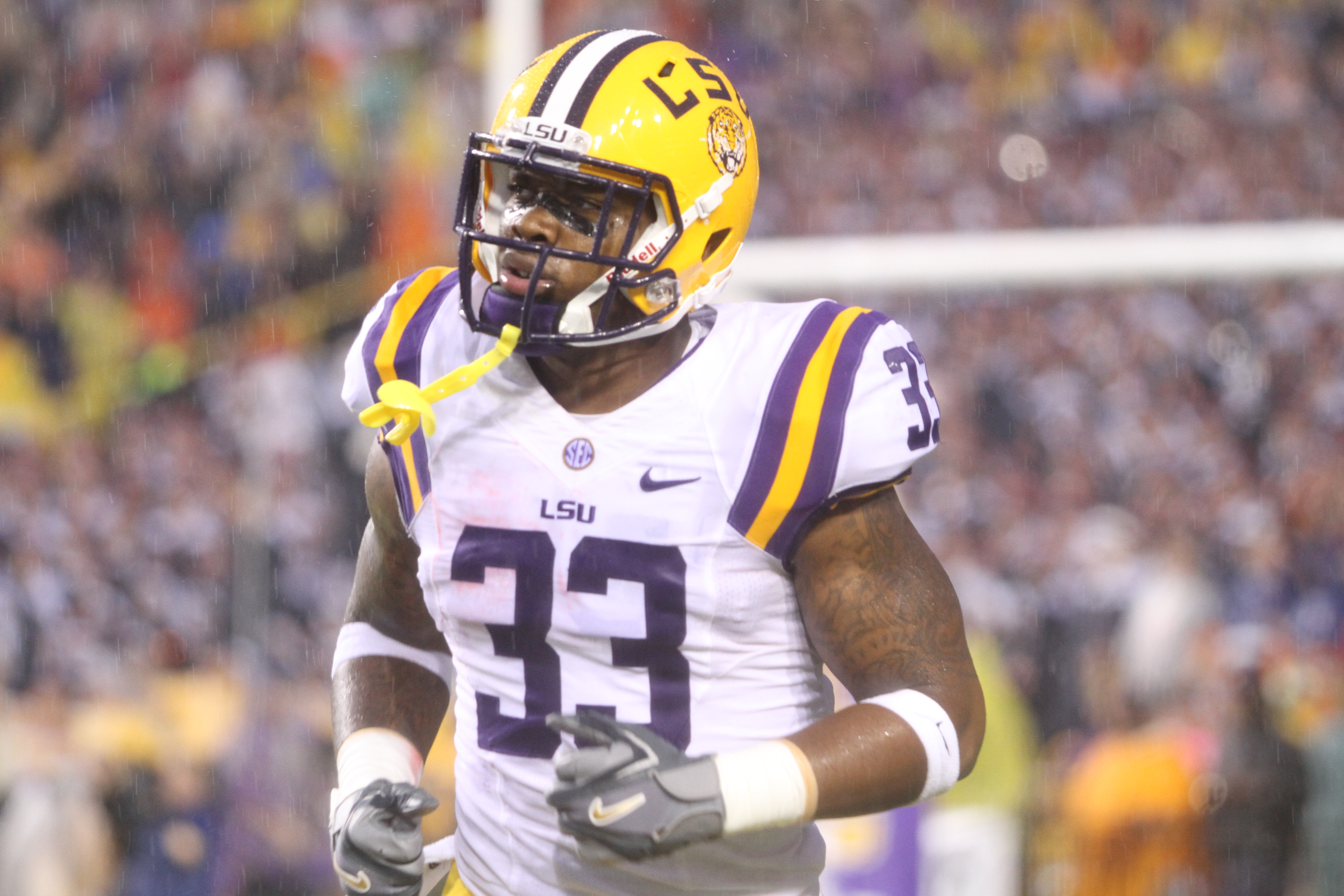 Tammy Anthony Baker, Photographer Action News 17